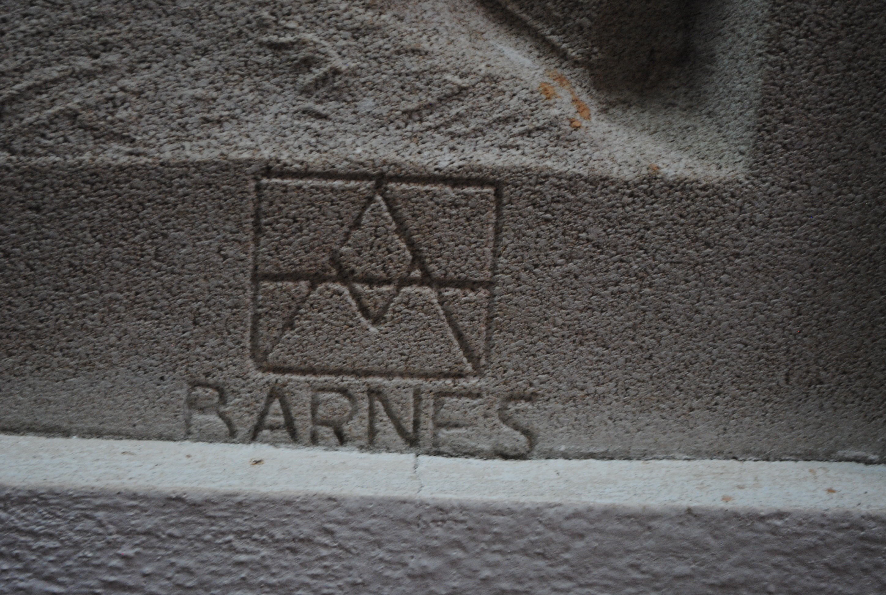 Eduardos Barnes´s sculptor signature